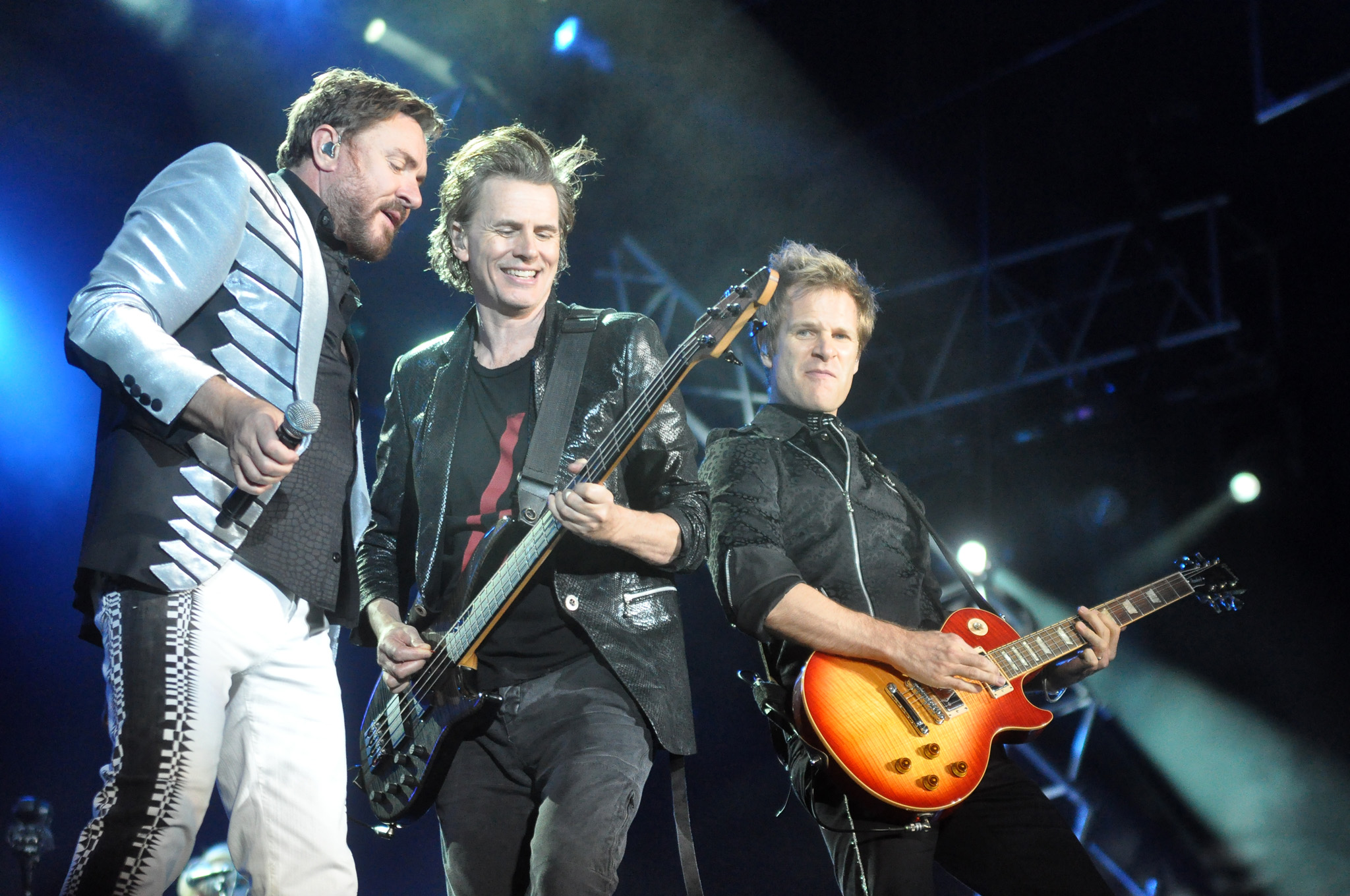 Duran Duran, EXIT 2012.